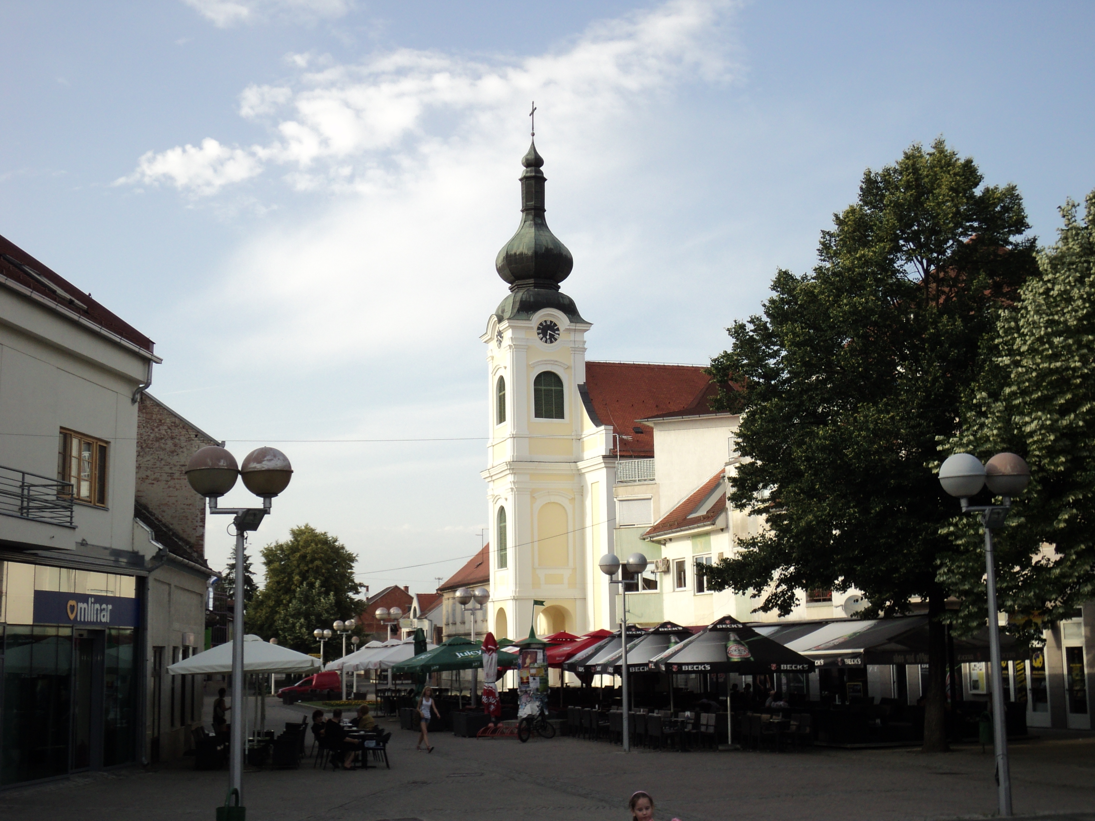 Center of Valpovo.